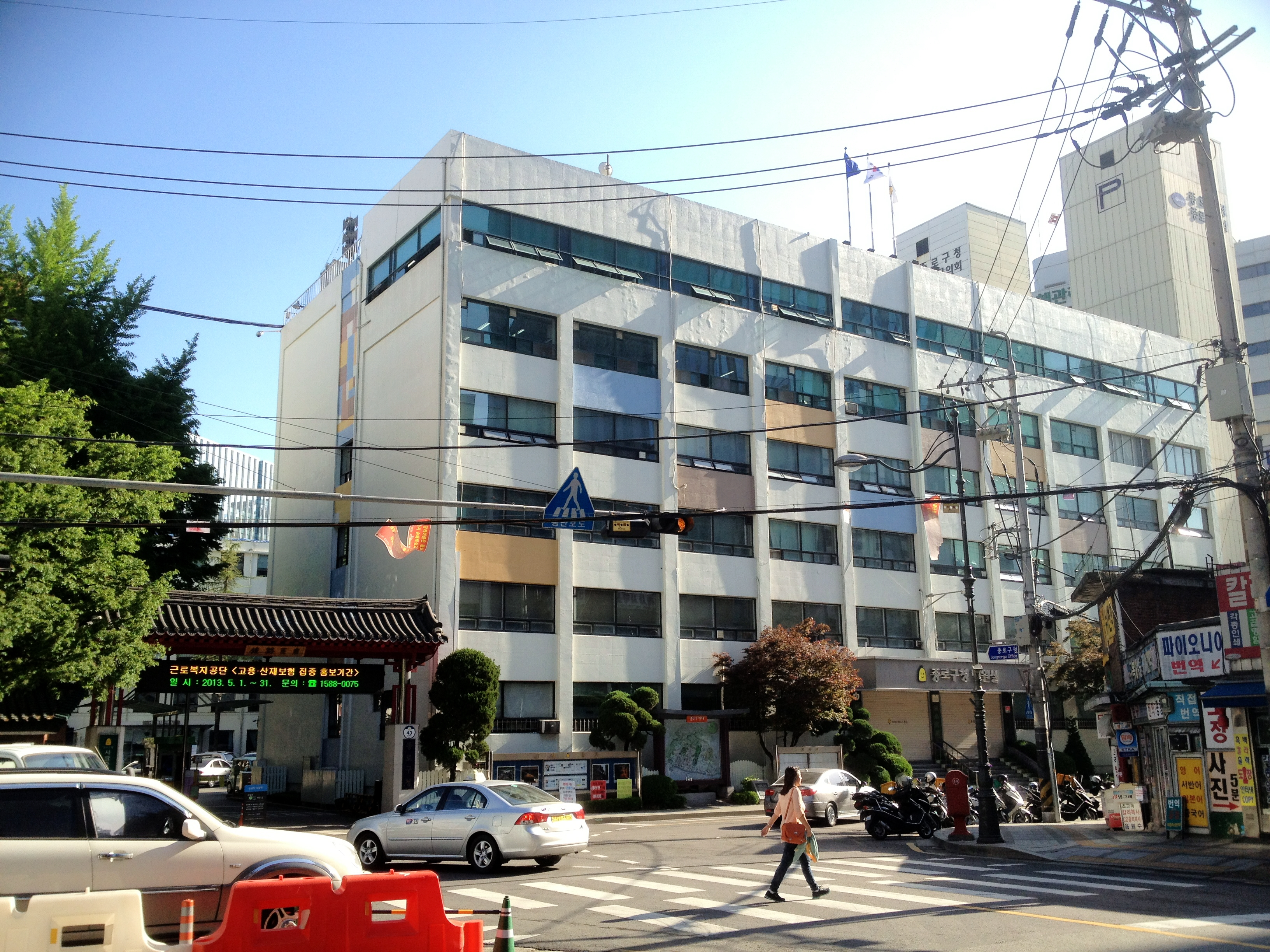 Jongno-gu Office(Seoul Special City)